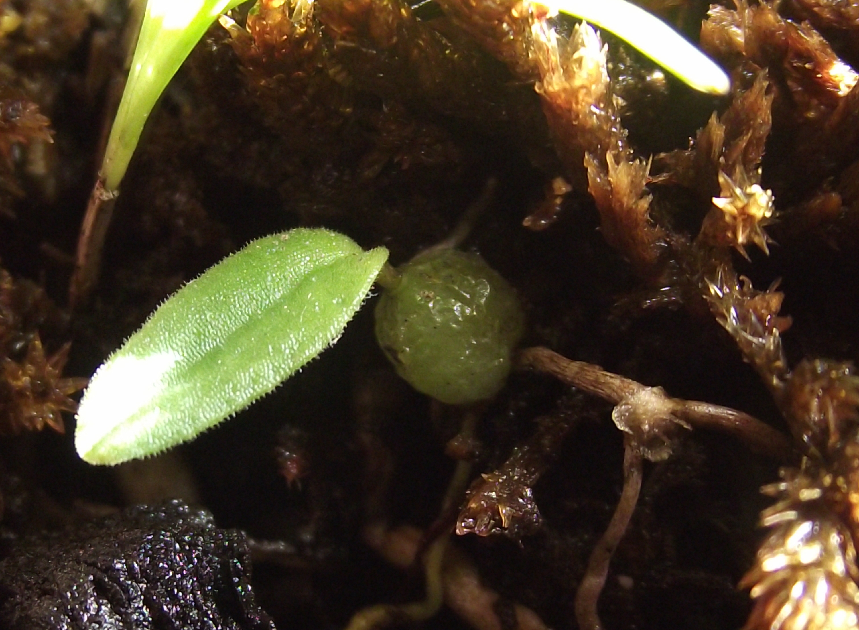 Bulbophyllum pygmaeum, also known as Ichthyostomum pygmaeum. An attached dessicated capsule was present but not photographed.